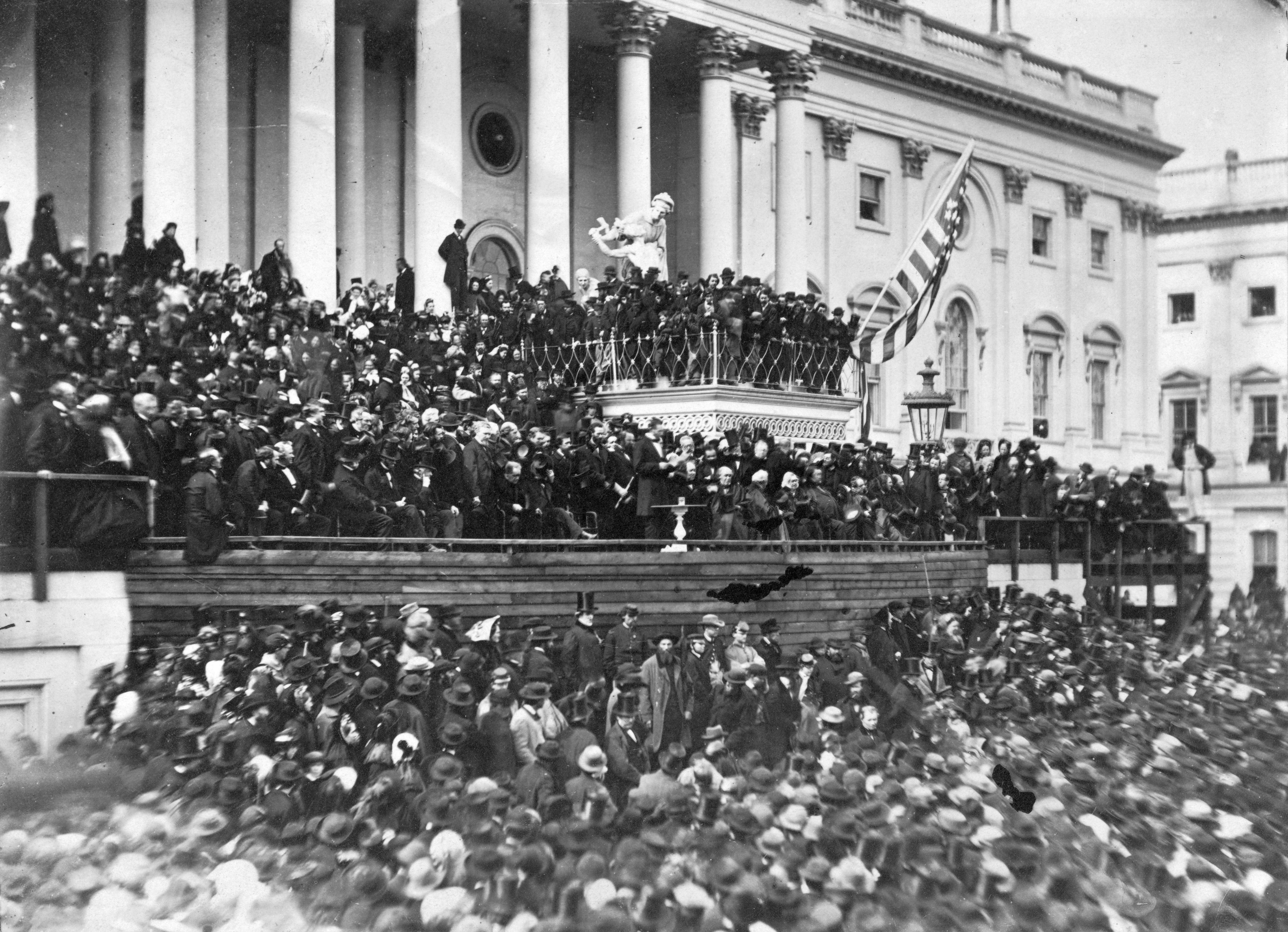 Abraham Lincoln delivering his second inaugural address as President of the United States, Washington, D.C.